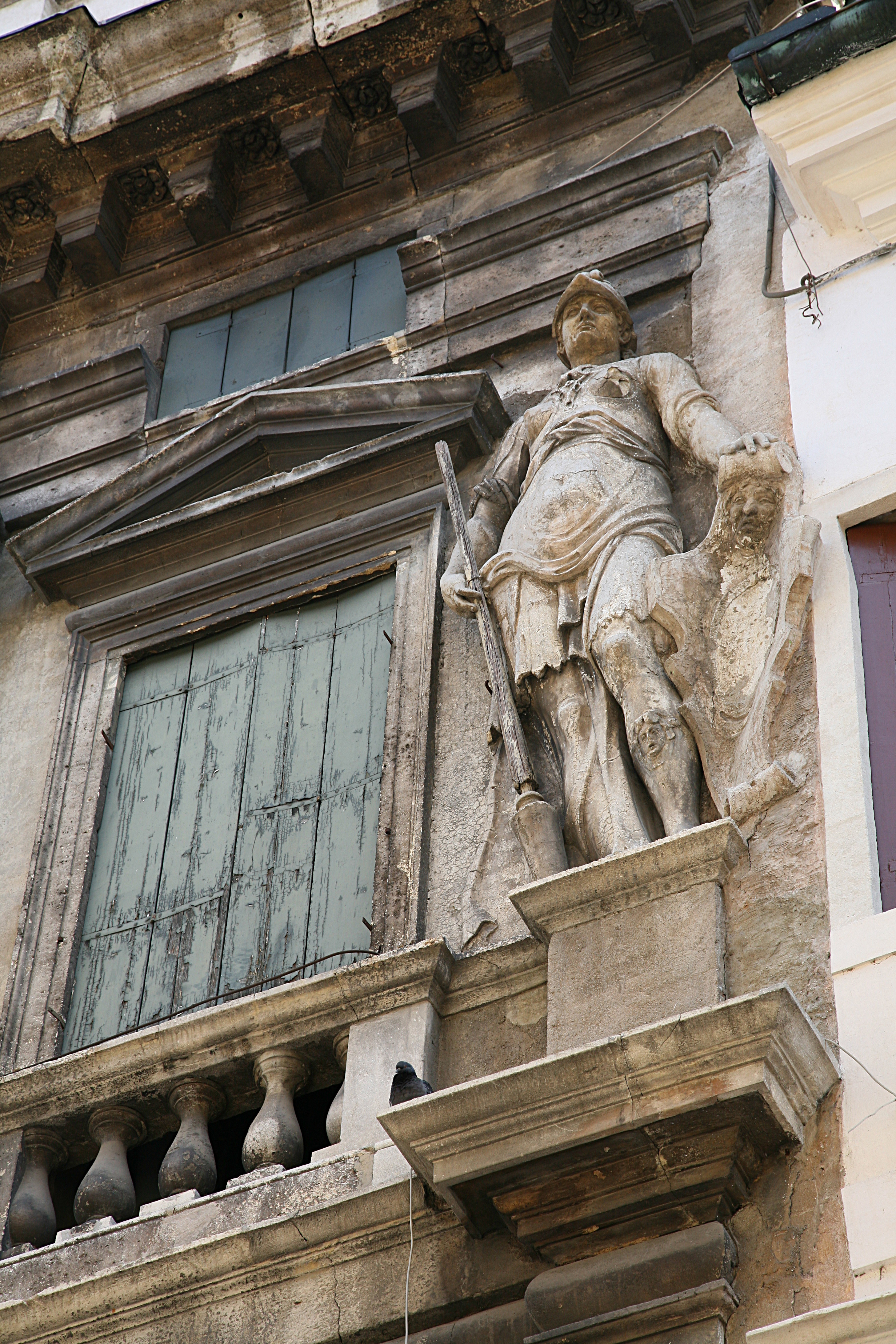 Palazzo Valmarana-Braga in Vicenza by Andrea Palladio. Detail of the facade